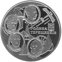 Coin of Ukraine